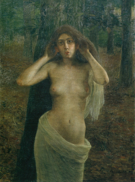 Kodama, by Wada Eisaku, Sen-oku Hakuko Kan, Kyoto, Japan